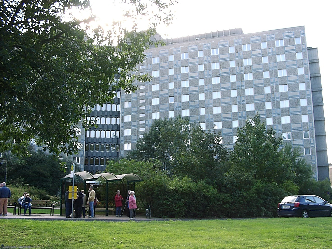 Hotel "Seehotel" in Templin, Brandenburg, Germany.